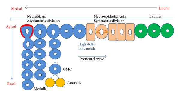 Schematic representation of neurogenesis in optic lobe development. During larval development transition from neuroepithelial (NE, orange) to neuroblast (NB, blue) takes place. NE cells undergo symmetric proliferation with a horizontal spindle orientation to expand the pool of precursor cells and give rise to asymmetrically dividing NB (green). This is in response to the proneural wave of lethal of scute. The median NB divides asymmetrically with a vertical spindle orientation, owing to the clear subcellular localization of the apical (polarity proteins, red boundary) and basal (cell-fate determinants and their adaptor proteins, purple boundary) complex, to give rise to the Ganglion mother cells (GMCs) and further, post mitotic neuronal daughter cells. Most central brain neuroblasts during embryonic and postembryonic stages undergo asymmetric cell divisions [21, 27, 28].